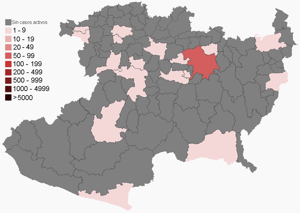 Cases COVID-19 actives Michoacan, august 19, 2020